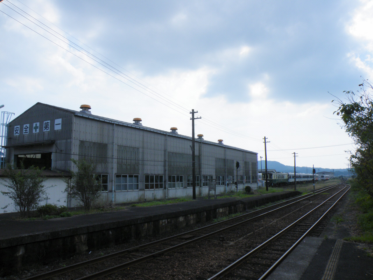 Matsuura Railway Saza Depot seen from Saza Station Platform #3